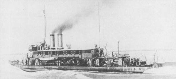 Japanese Gunboat "Hira" in trial run.